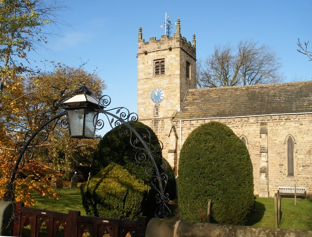 St Oswalds Church, Collingham, West Yorkshire. Taken on Thursday the 12th of November 2009.